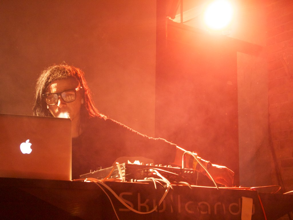 Skrillex, Sonny Moore, sets up for his second back-to-back concert.